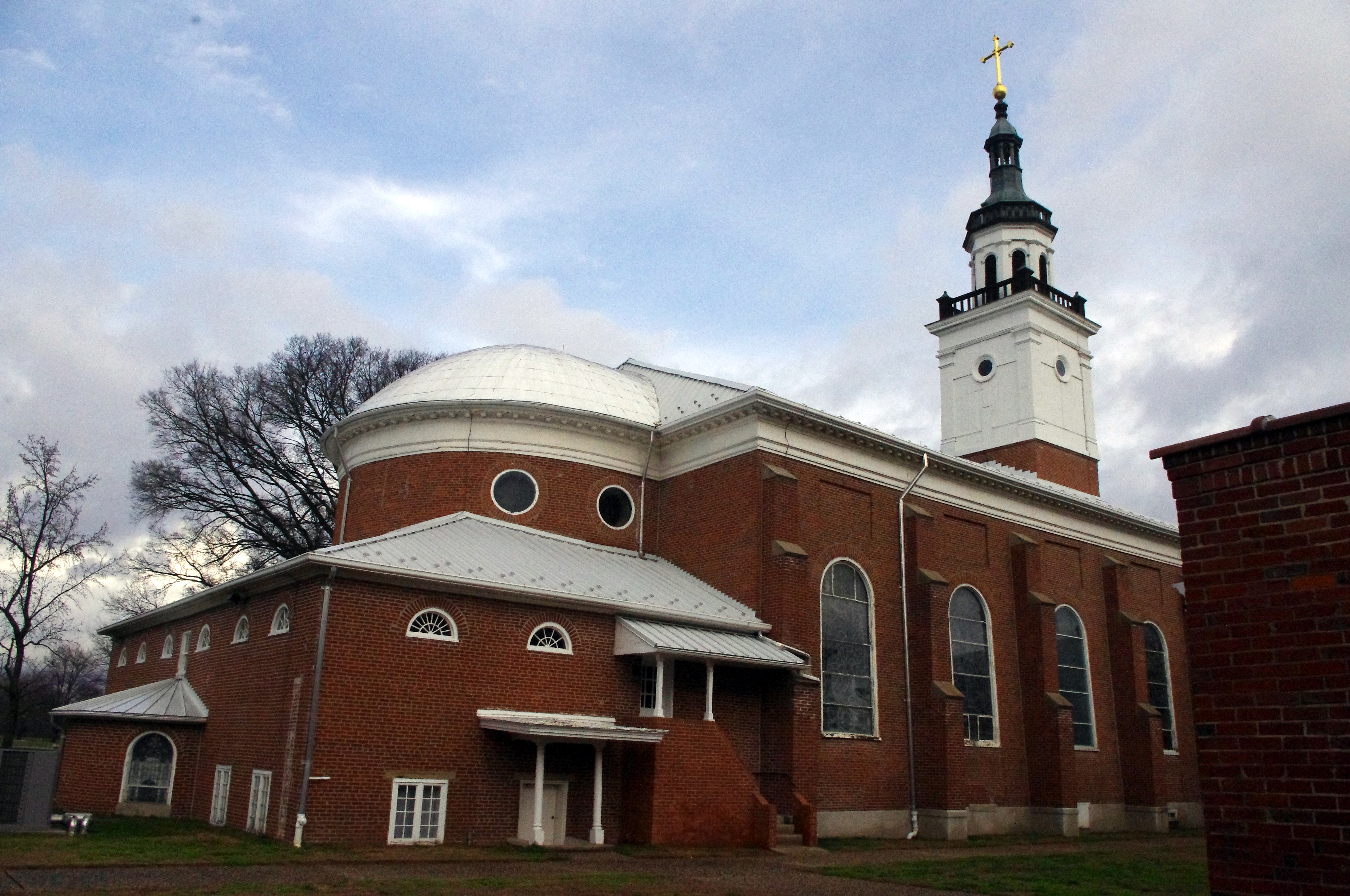 St. Francis Xavier Basilica (Vincennes, IN) - exterior, rear of basilica